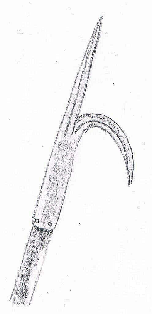 Boarding-hook, boat-hook